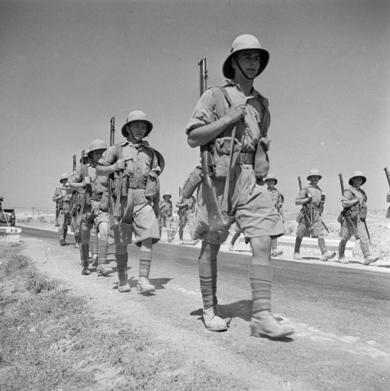 The British Army in Cyprus 1941 Troops march along a road in Cyprus, 9 August 1941.